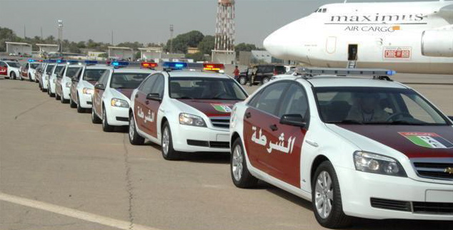 21 Police Cars arriving at the Tripoli airport